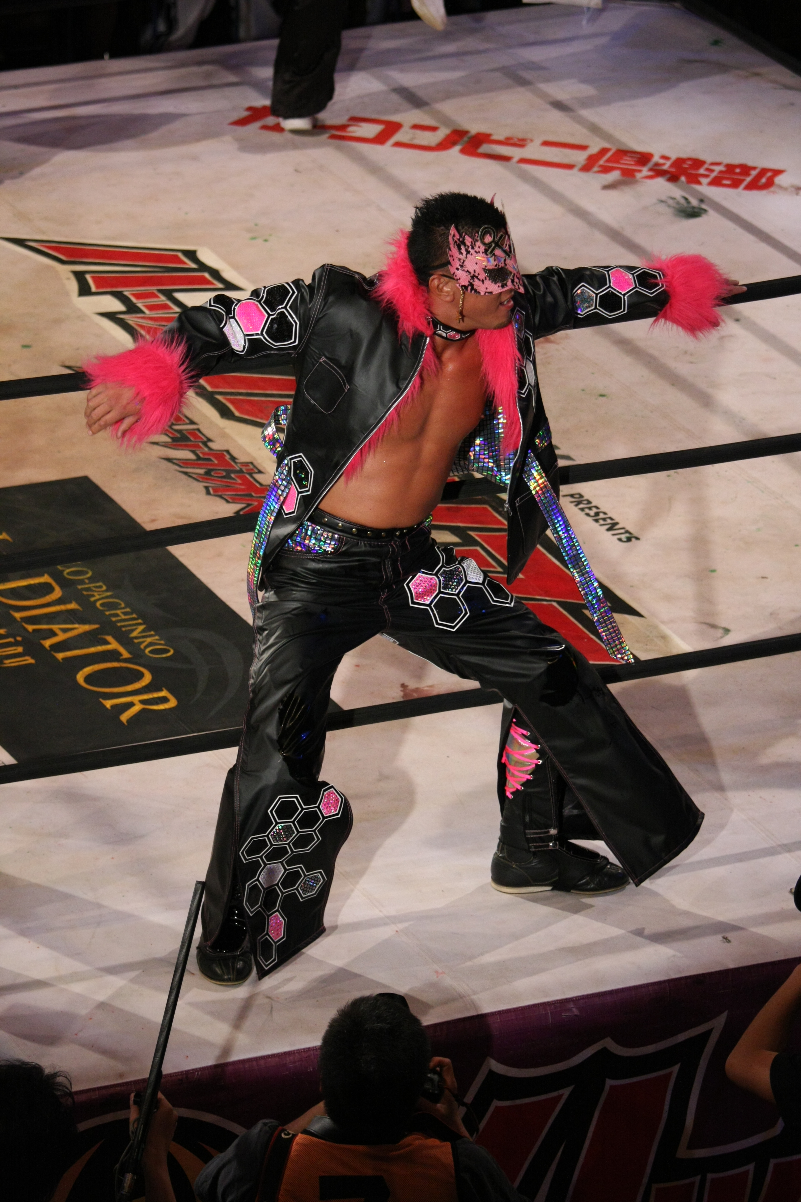 Professional wrestler Magnum TOKYO at a HUSTLE show in May 2009.